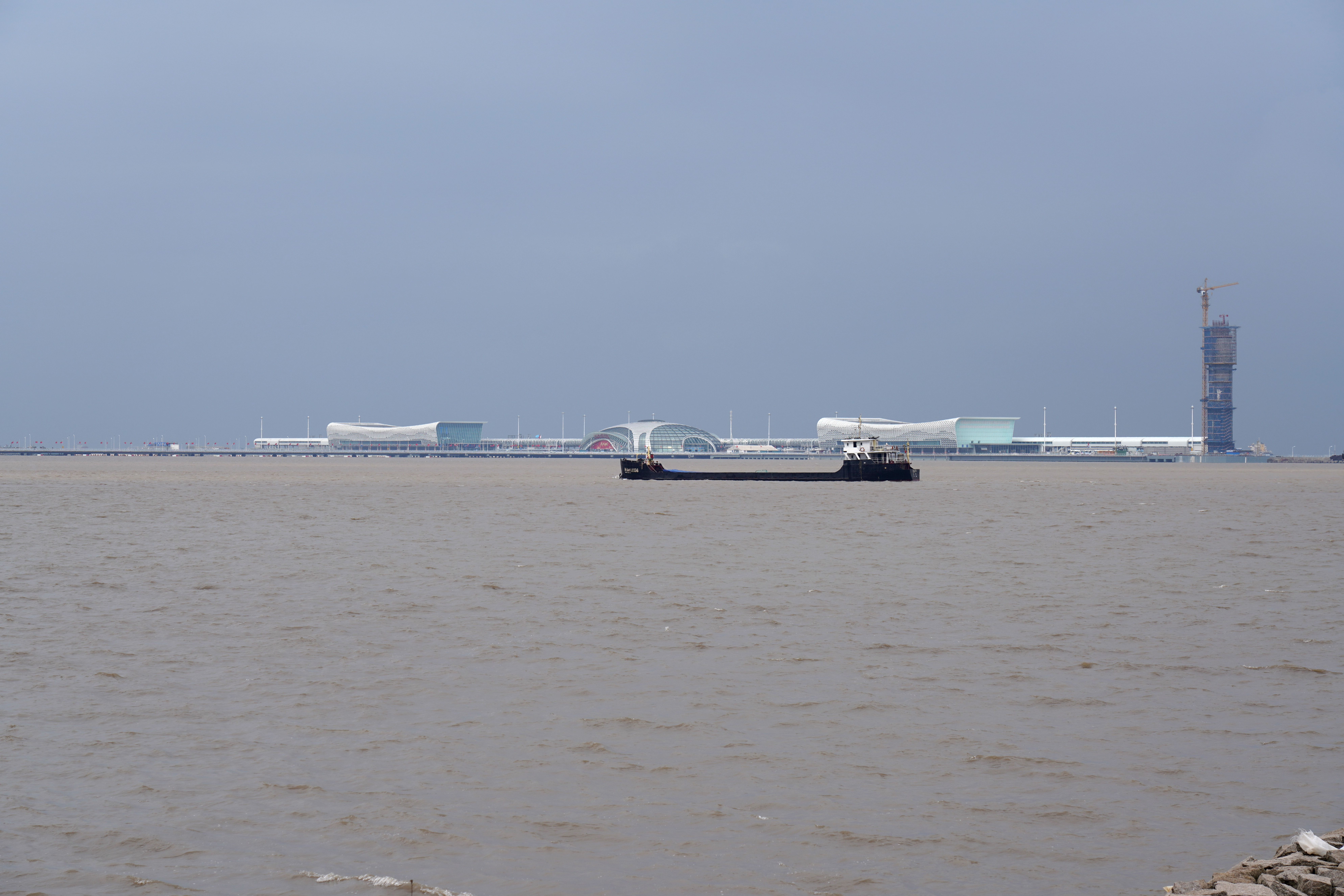 Shanghai International Cruise Terminal is located in the Yangtze River Estuary. After the expansion is completed, four large cruise ships can be parked at the same time.